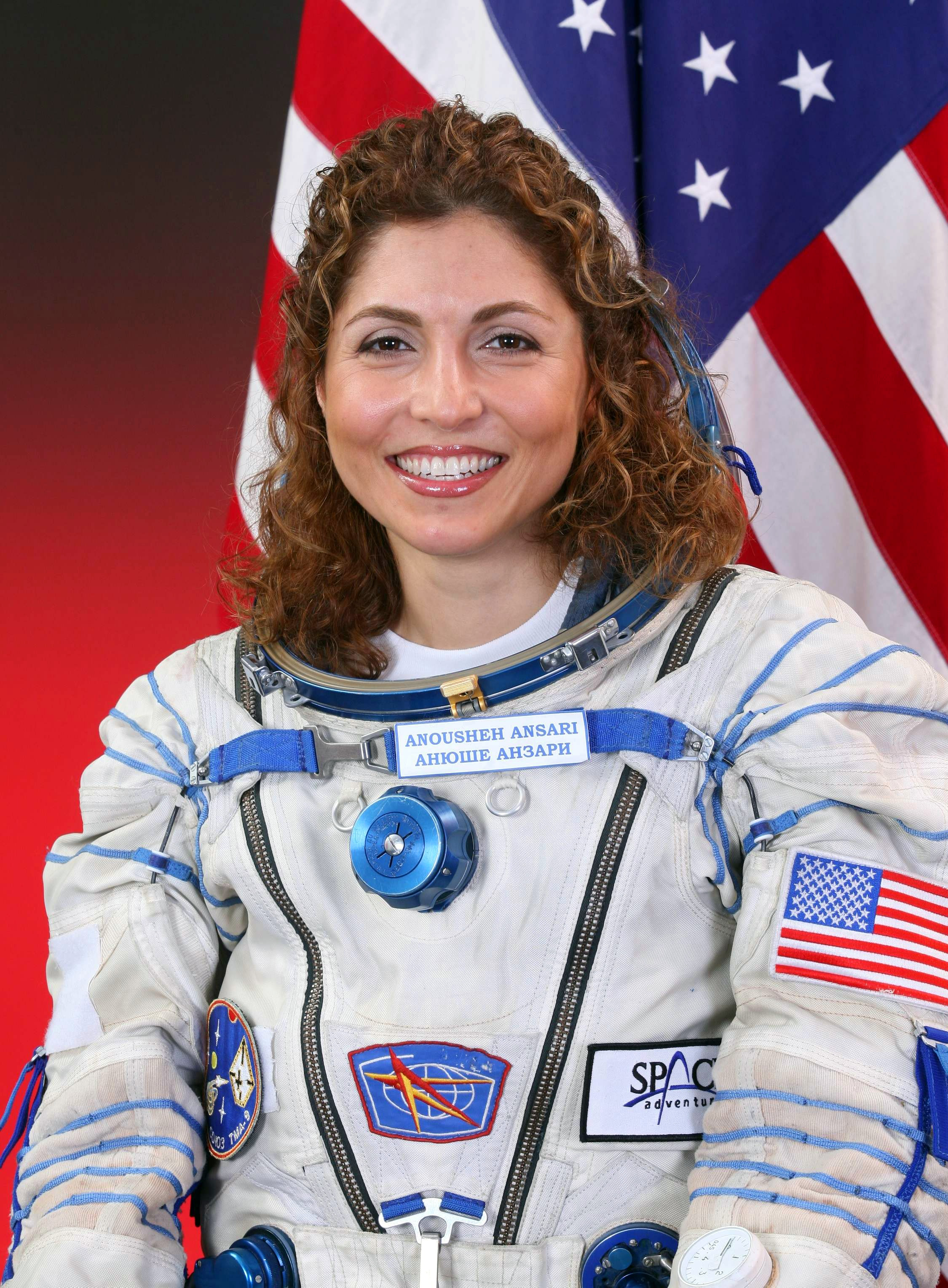 Anousheh Ansari in her spacesuit